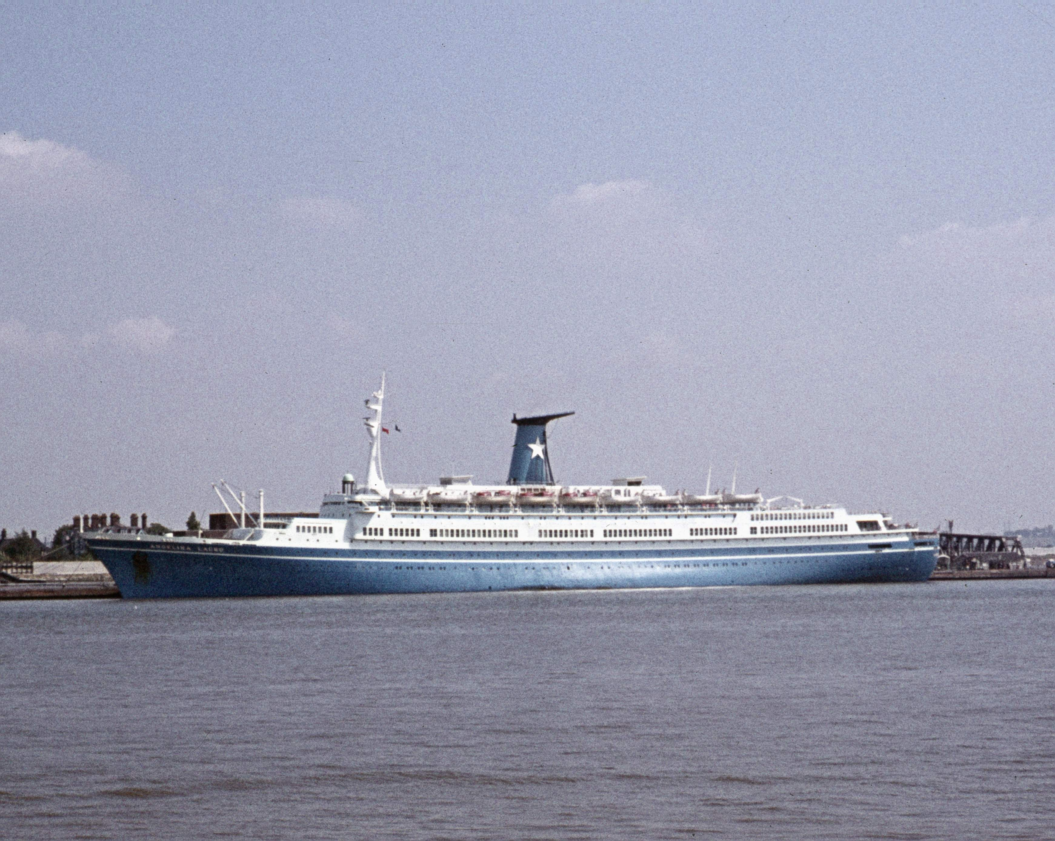 The cruise ship Angelina Lauro moored at Tilbury on June 13, 1976.